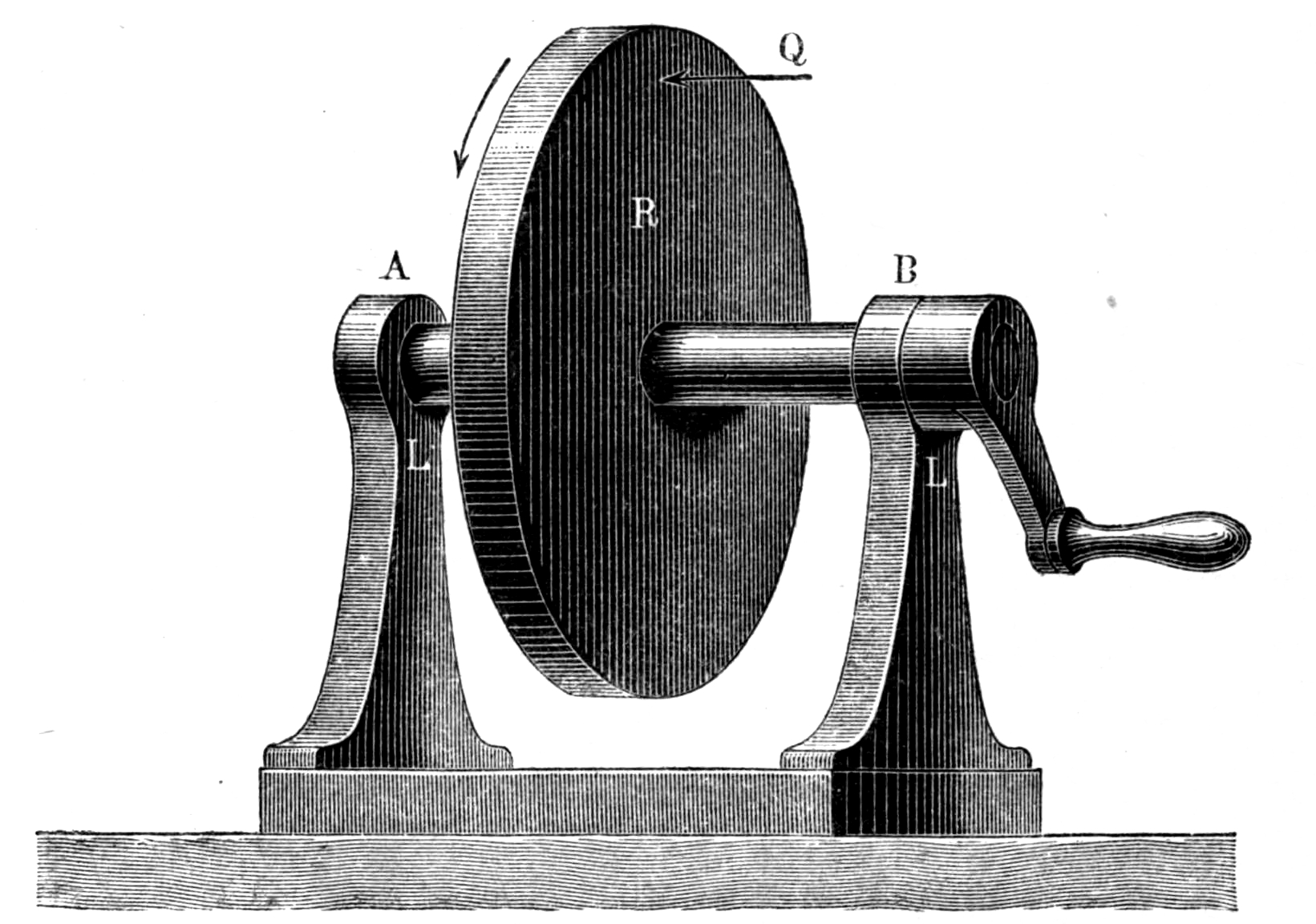 Figure 3 from The Kinematics of Machinery. Description: A wheel, constructed of perfectly rigid material, supported between two mounts.